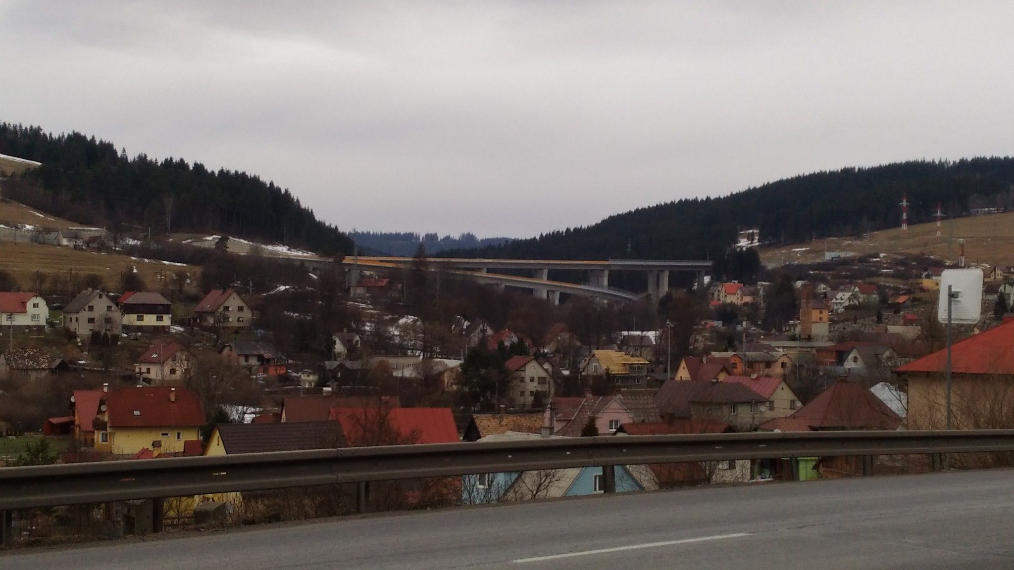 Motorway junction D3 x I/11 (x R5 planned), Svrčinovec, Slovakia.